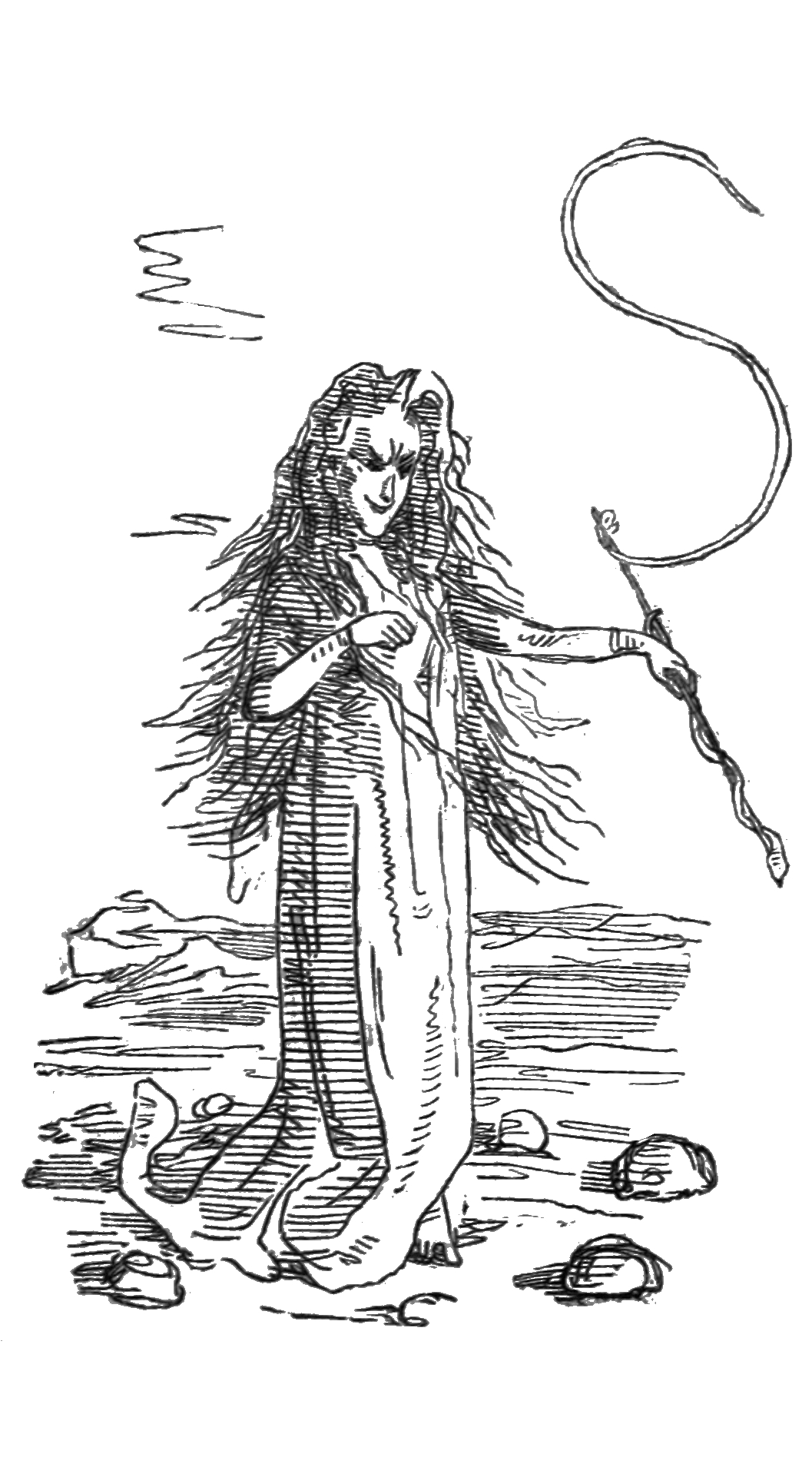 Becky Sharp as Circe, an untitled image from the novel. The number indicates the Djvu page number of the Wikisource transclusion.